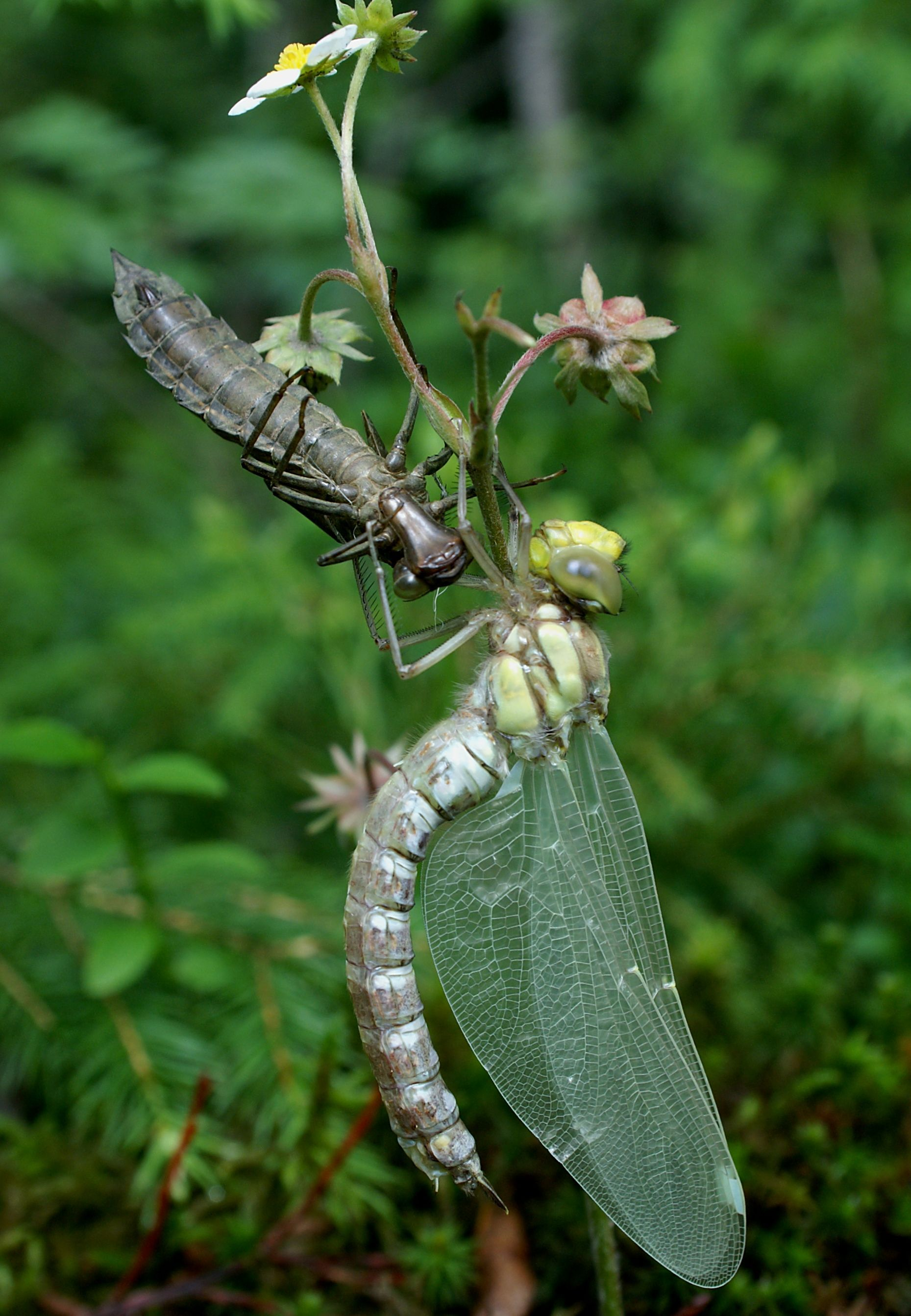 Female Southern Hawker freshly slipped with larva skin